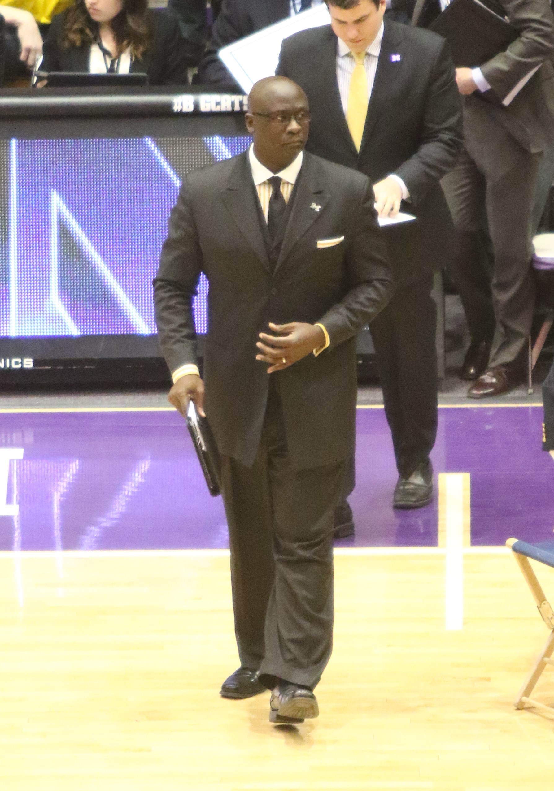 Bacari Alexander for the w:2014–15 Michigan Wolverines men's basketball team at Welsh-Ryan Arena